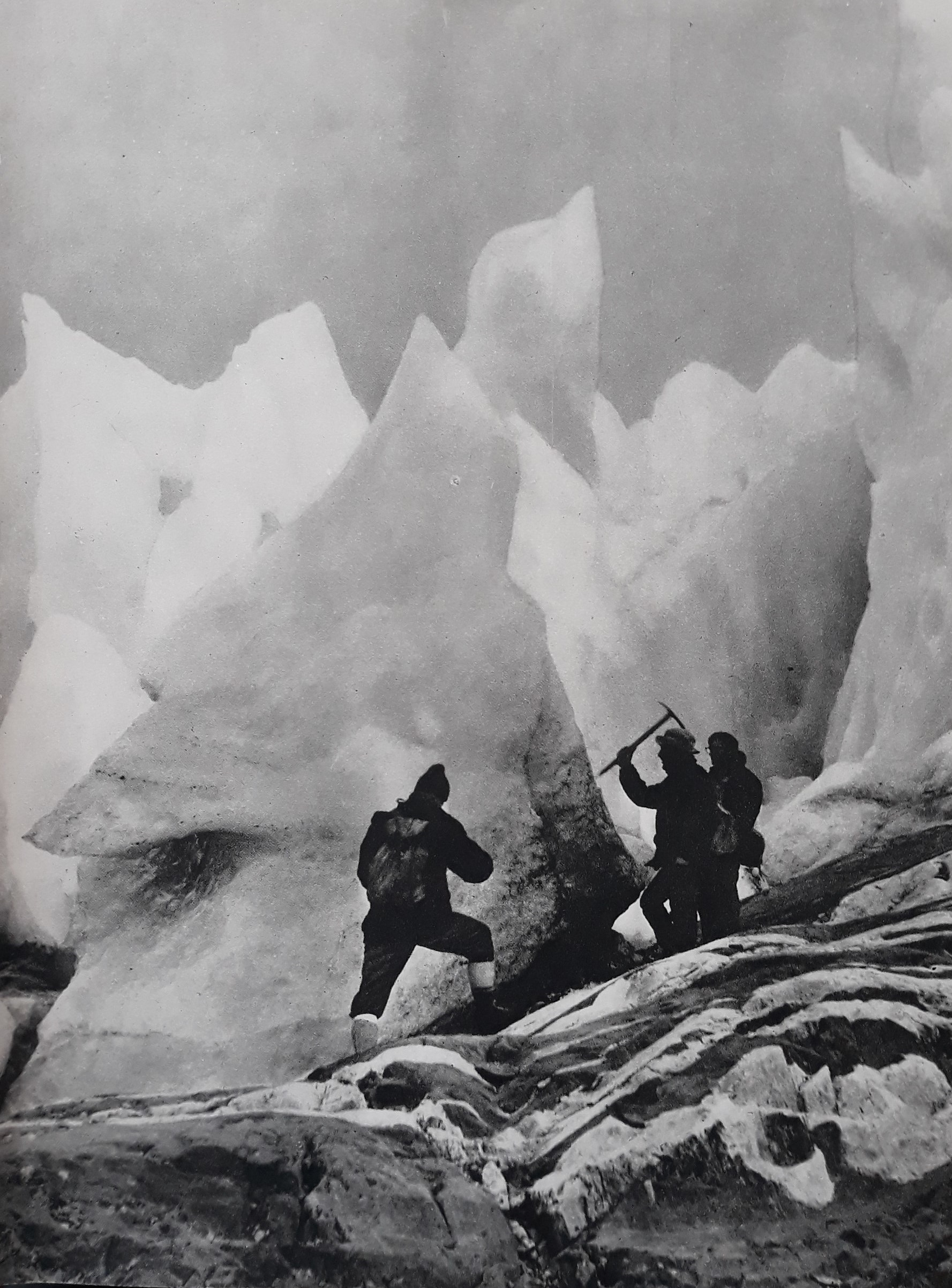 Exploring glacier Mount Wharton